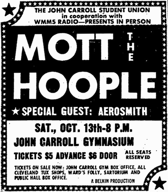 Print ad for Mott the Hoople rock concert with special guest Aerosmith